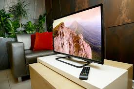 Tesla tv 40 inch